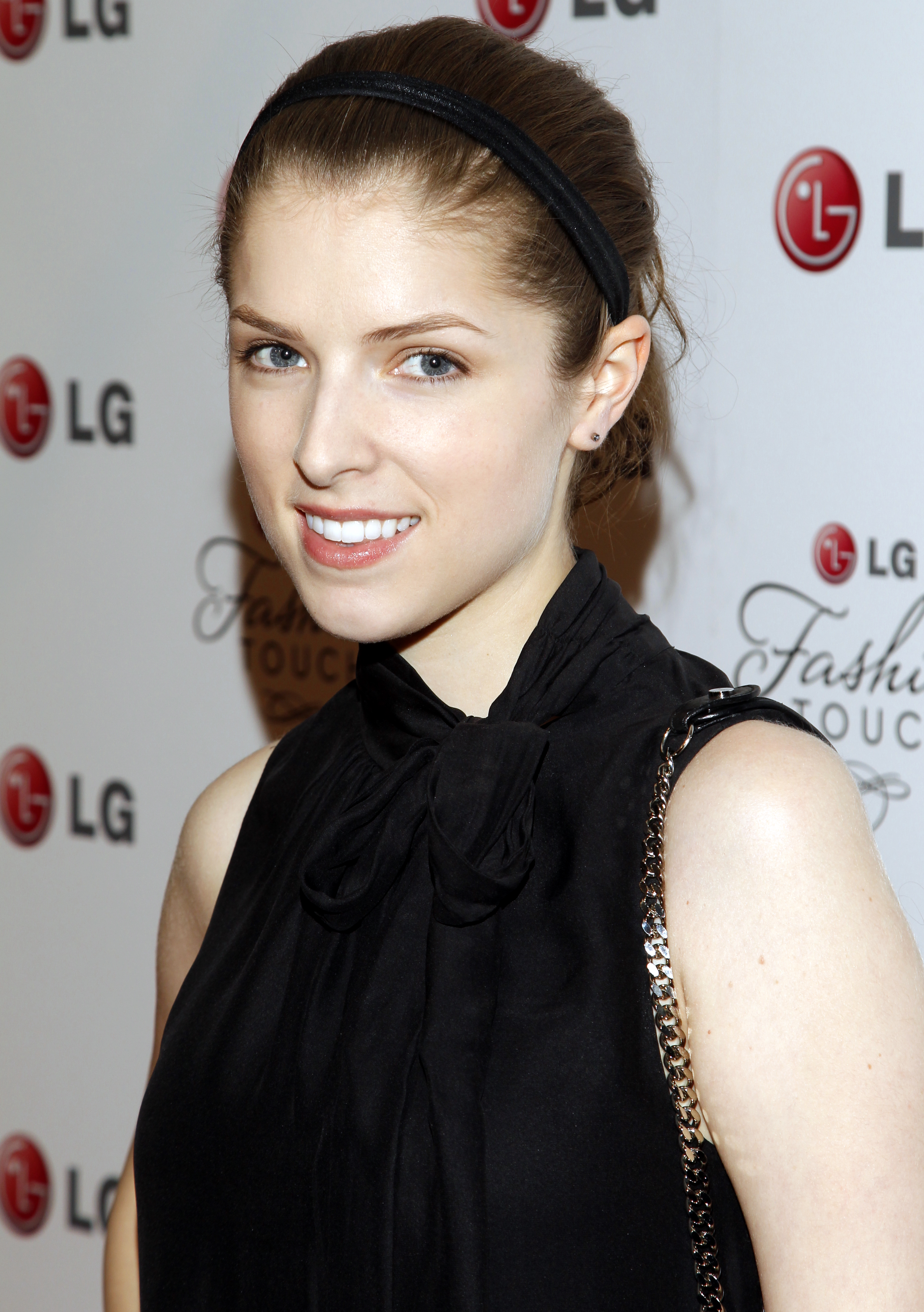 LG Mobile Phone Touch Event Hosted By Anna Kendrick.